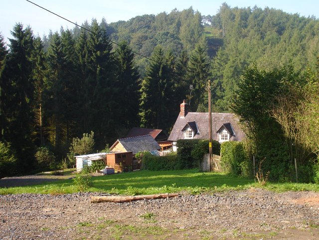 Hollybush Cottage Deep in the Leighton Park woods, close by the lower pool. Home, apparently, to Rhiwlas Gundogs.